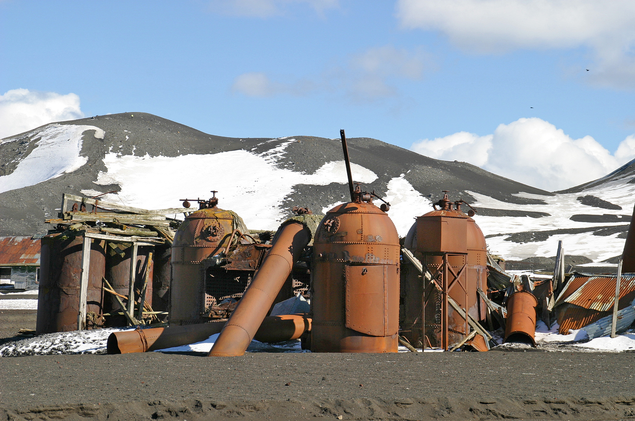 Rust-eaten machines and stoves of the former southernmost whaling station in the world. The British station was operated from 1910 to 1931 on the Whalers Bay of Deception Island (Antarctic, Bransfielstraße). Deception Island is one of the largest crater islands in the world.